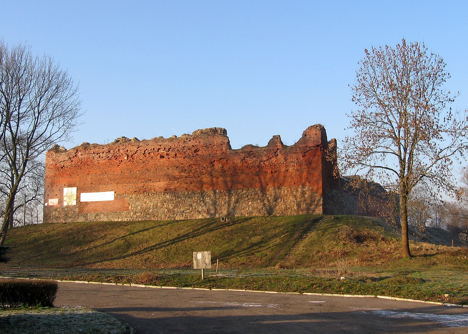 Drahim Castle in Stare Drawsko, Poland